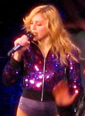 Madonna in Confessions Tour Wembley, performing Hung Up